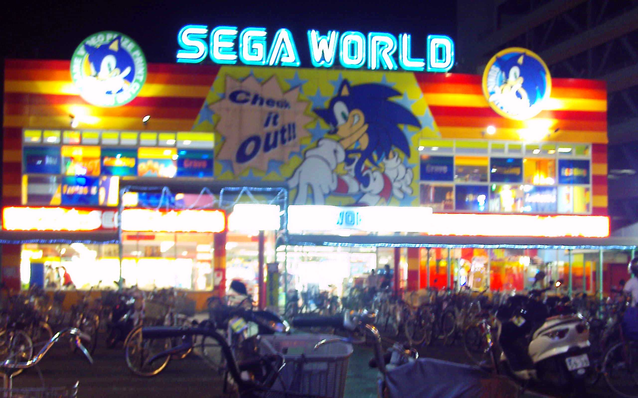 SEGA WORLD at Imafuku Osaka